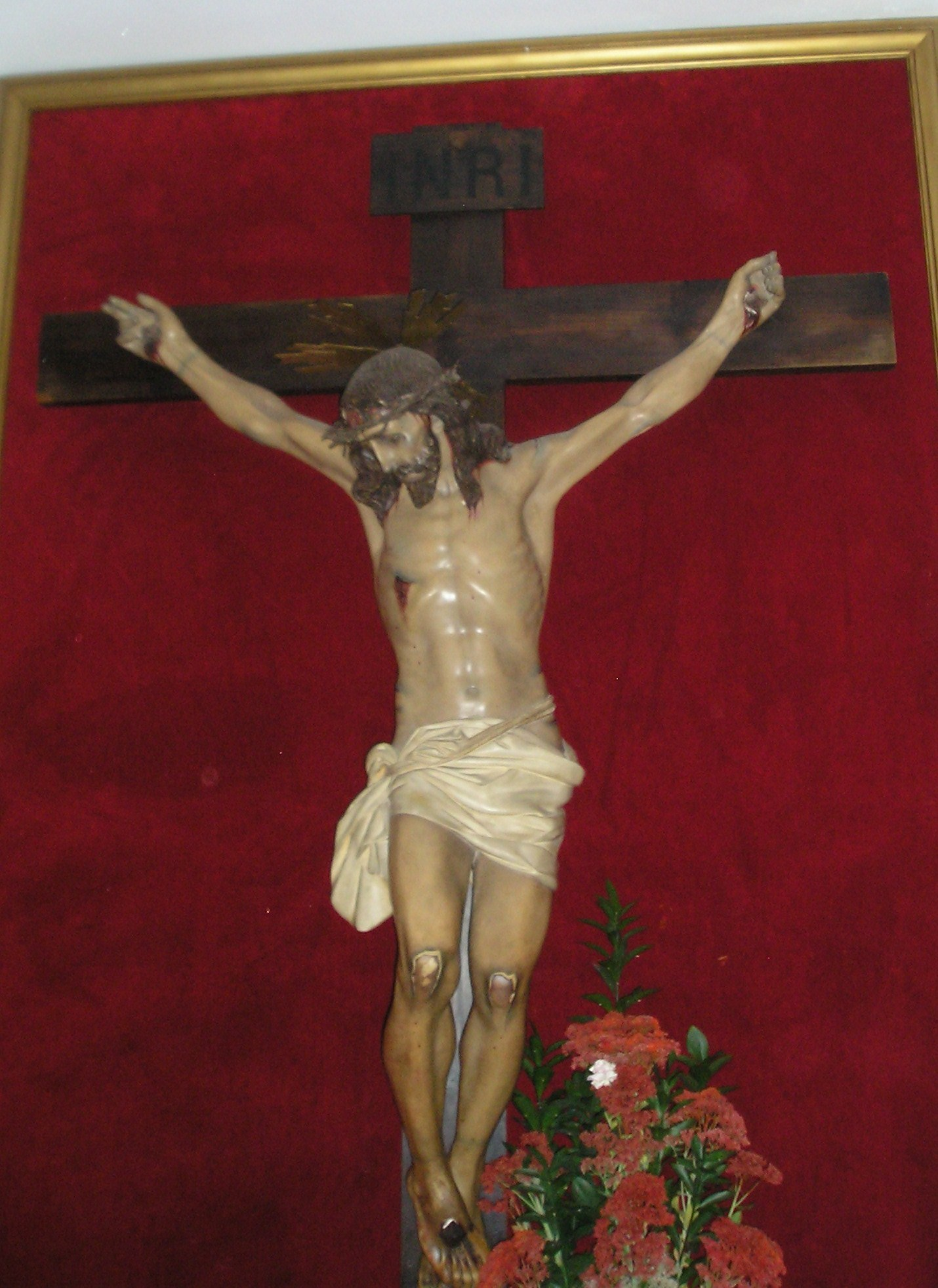 Stmo. Cristo del Perdón (imagen).